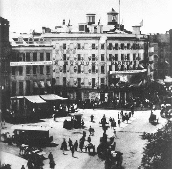 A photograph of Barnum's American Museum, New York City.